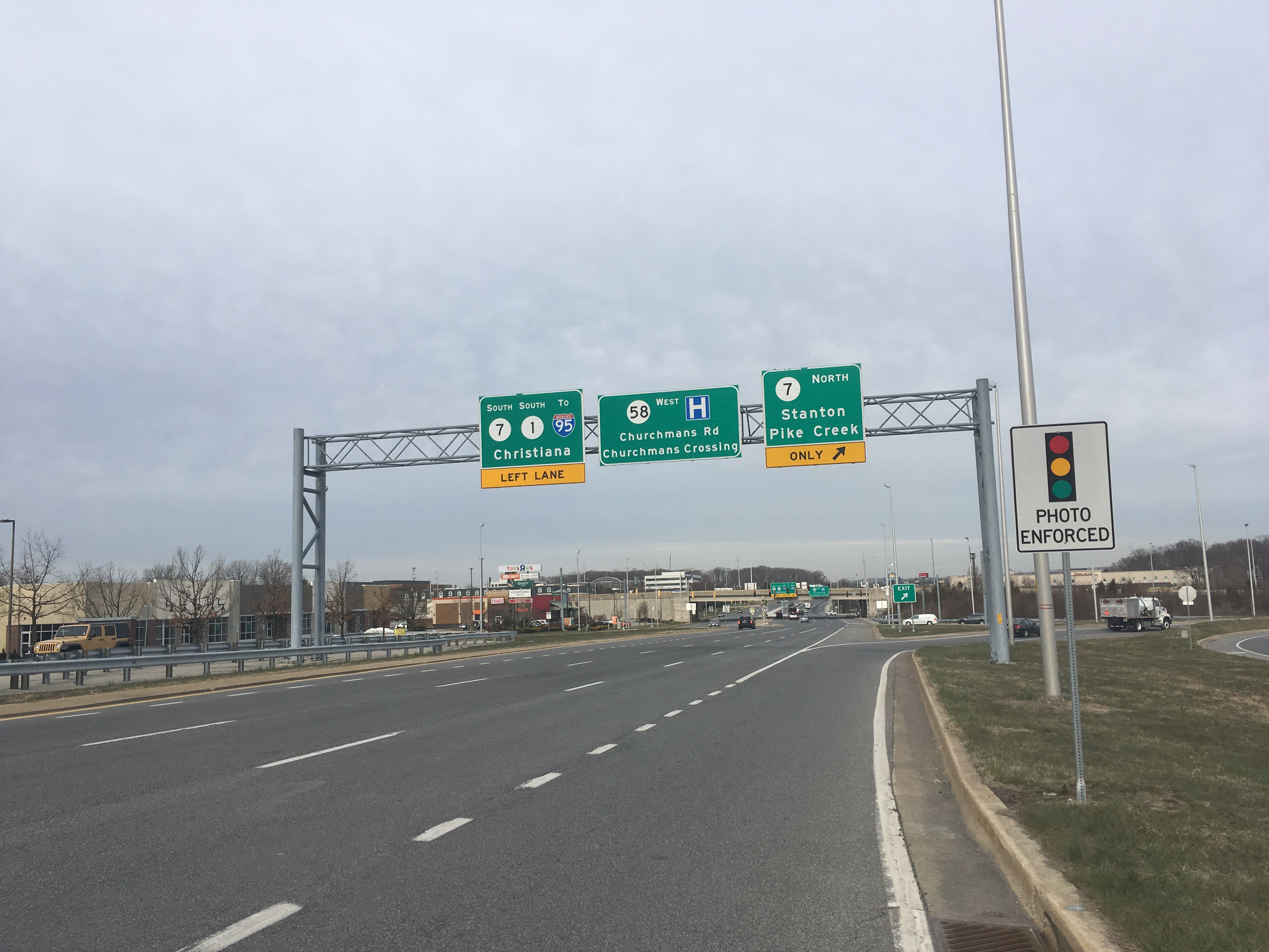 Westbound Delaware Route 58 (Churchmans Road) at the interchange with Delaware Route 1/Delaware Route 7 in Christiana, Delaware